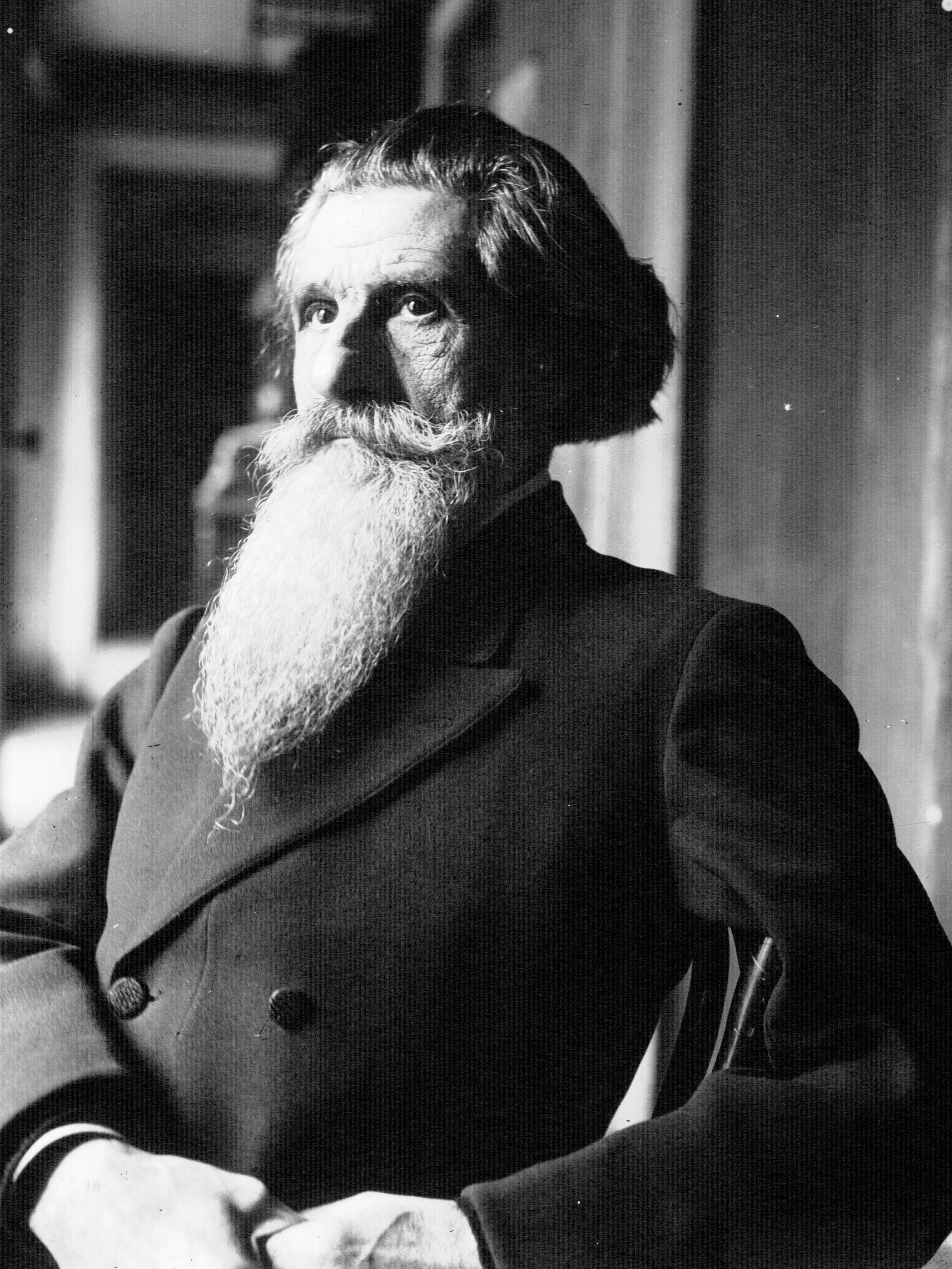 Italian anarchist and patriot Amilcare Cipriani (1843-1918).